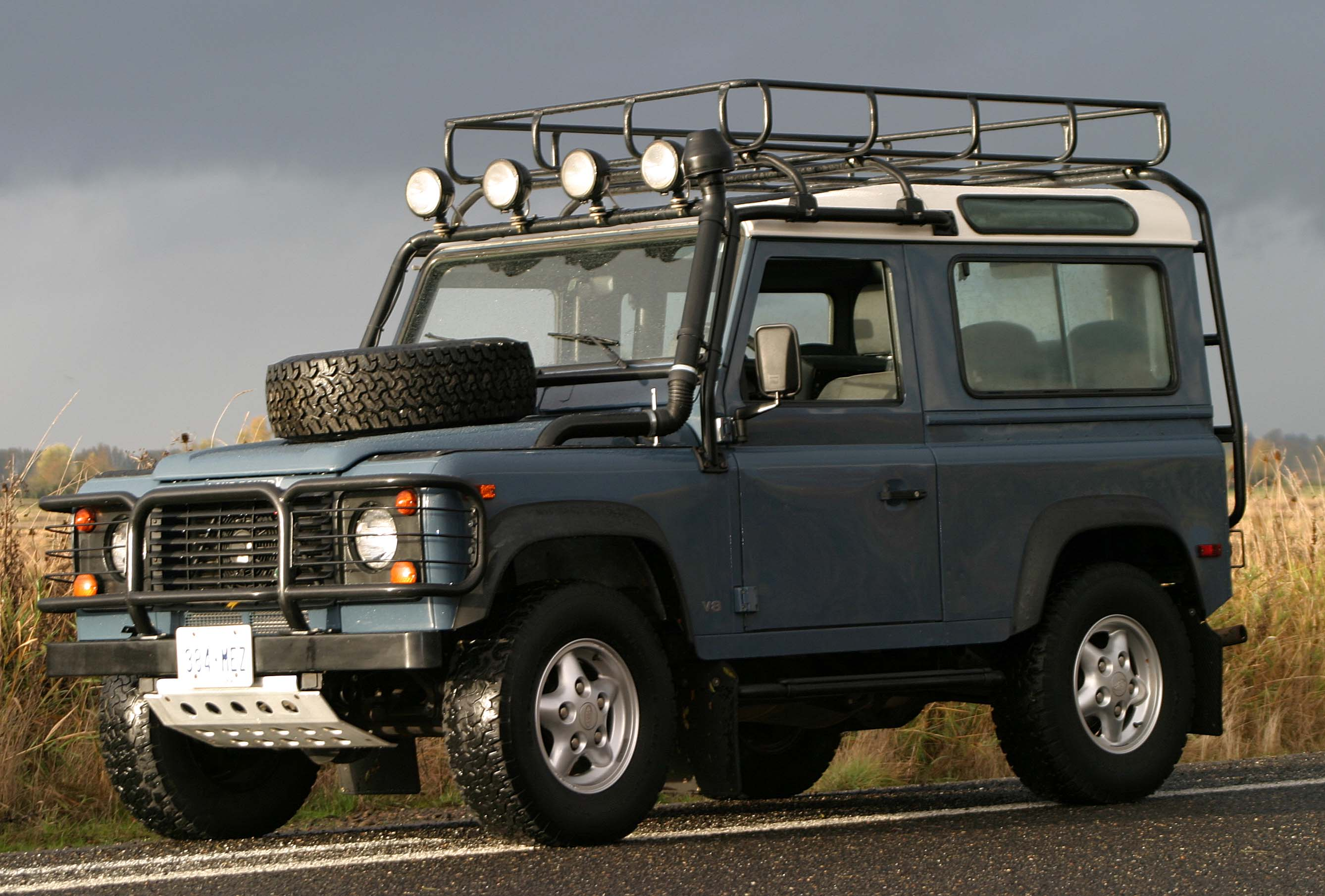 1997 Defender 90 Hard Top, photograph by John Kloepper